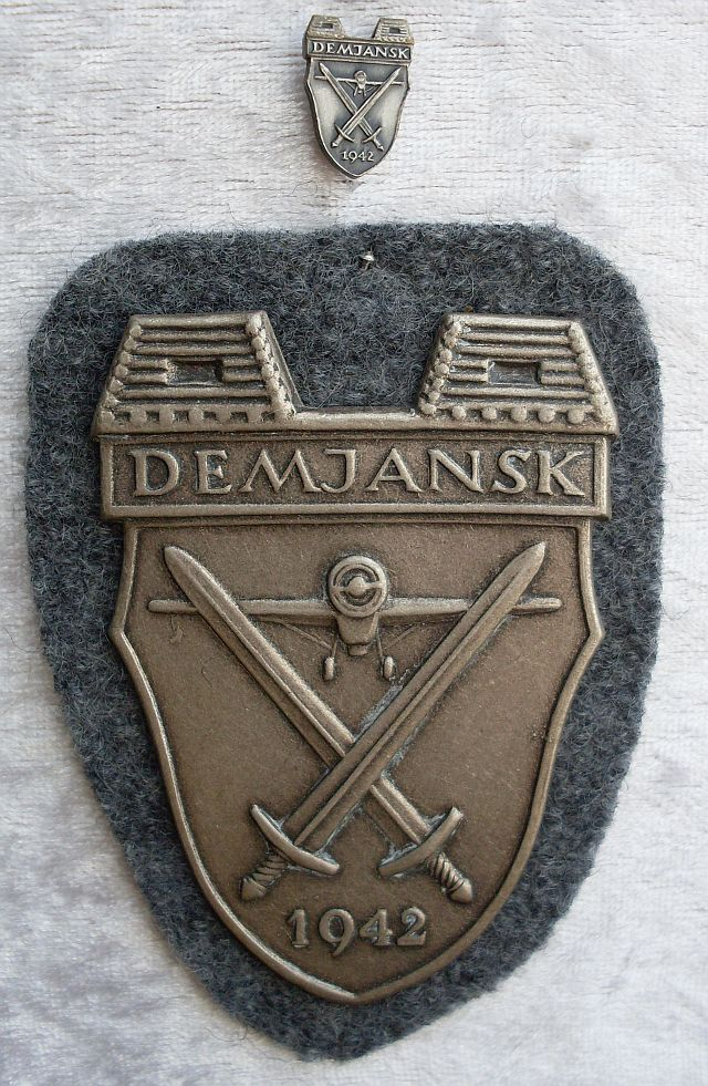 The Demjansks shild in the 57 version with tag